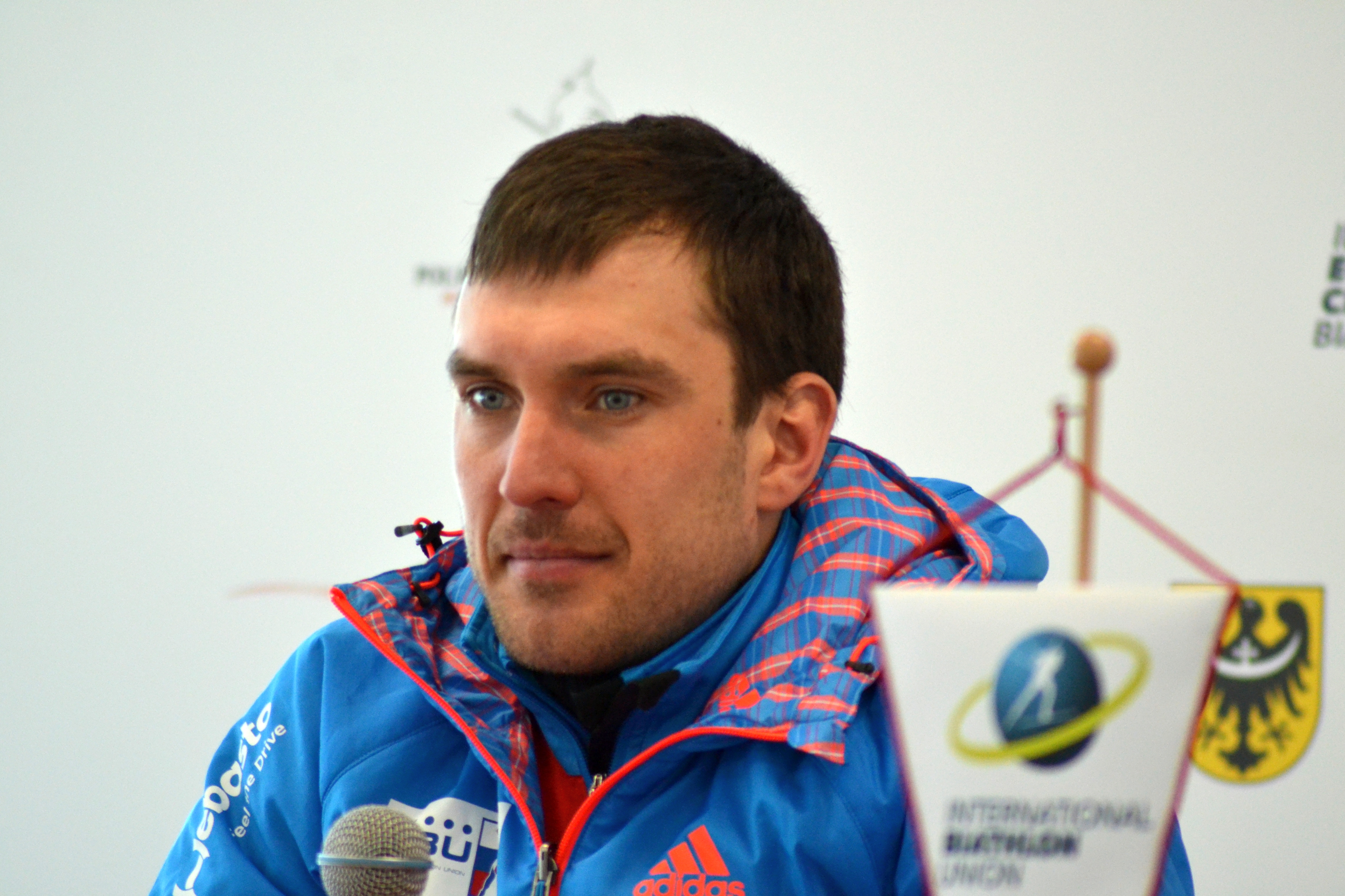 Open European Championships Biathlon 2017, Men's Pursuit race.